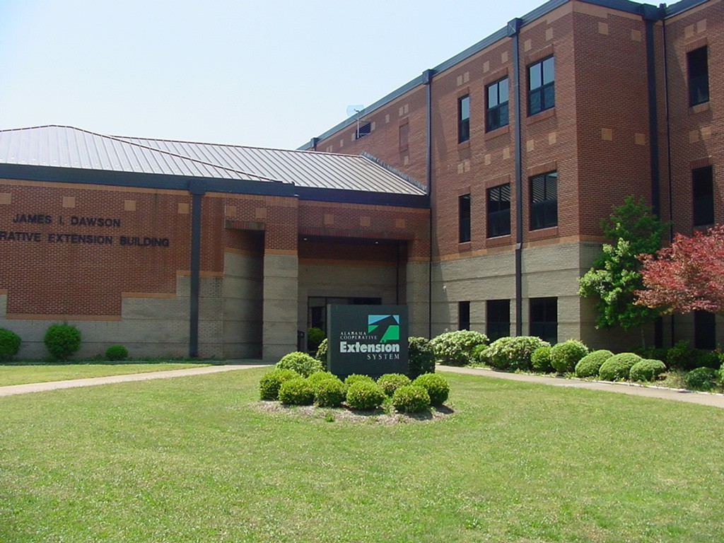 Taken by me of James I. Dawson Cooperative Extension Building, Alabama A&M University Campus, May, 2007. The logo of the unified Alabama Cooperative Extension System is displayed in front of the James I. Dawson Cooperative Extension Building, named in honor the former associate dean for Extension and administrator of the Alabama A&M University Cooperative Extension Program. The Dawson Building serves as the Alabama A&M University headquarters of the Alabama Cooperative Extension System.